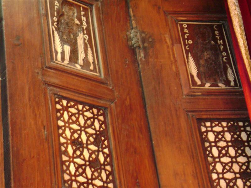 Door of Prophecies at the Christian Syrian Monastery in Egypt